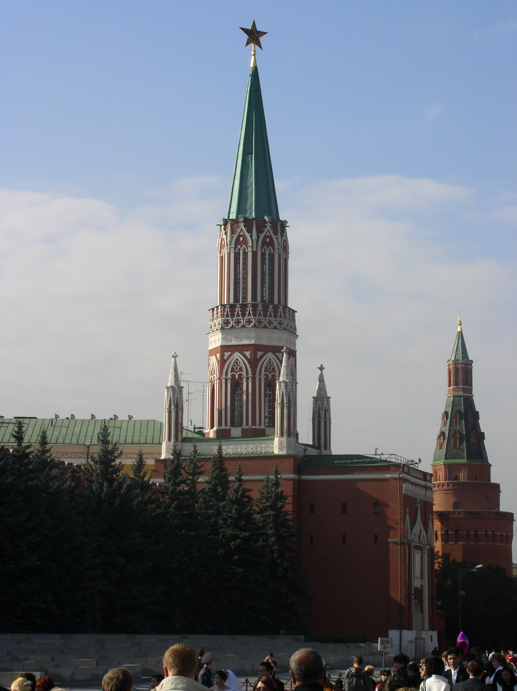 Saint Nicholas and Corner Arsenal towers of Moscow Kremlin. Moscow, Russia.